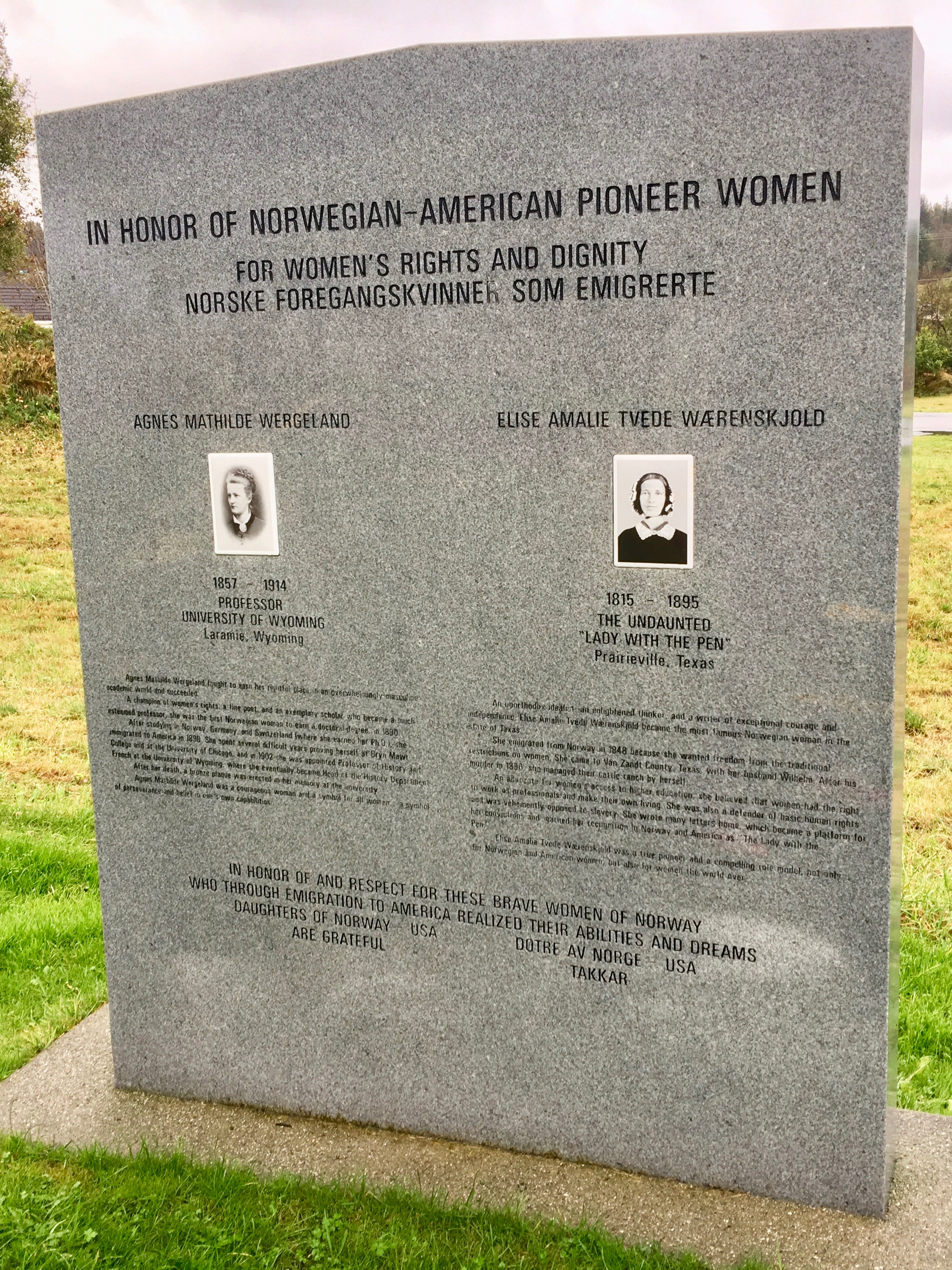 Memorial stone by "Emigrantkyrkja/Emigrantkirken" (former Brampton Lutheran Church, North Dakota) at "Vestnorsk utvandringssenter/utvandrarsenter" (Western Norway Emigration Center) in Radøy, Hordaland, Norway: "Norwegian-American Pioneer Women Agnes Mathilde Wergeland & Elise Amalie Tvede Wærenskjold". Photo 2017-10-03